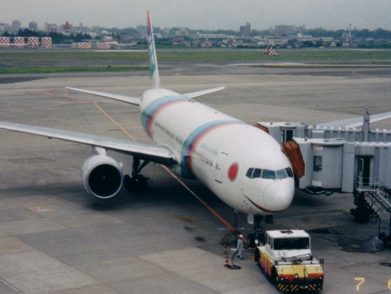 Japan Air System Boeing777-289(JA007D) at Osaka Intl. Airport.